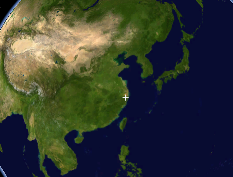 Screenshot taken using the Blue Marble dataset in NASA WorldWind showing the location of the Port of Ningbo, China (where the cross is). Cropped a bit around the edges, removed the NASA logo at the lower right of the image.